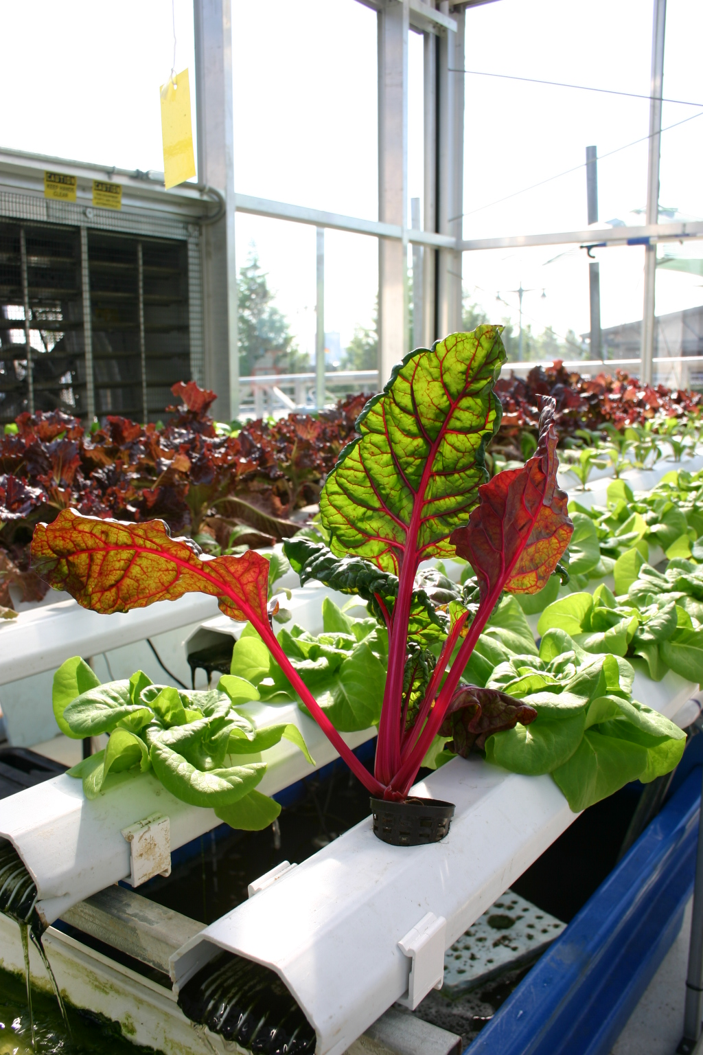 Aquaponics growing leafy greens, with chard in the forefront.